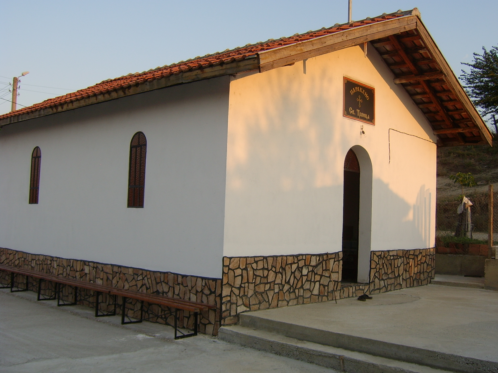 Sv.Troitsa Chapel in Levunovo, Bulgaria.